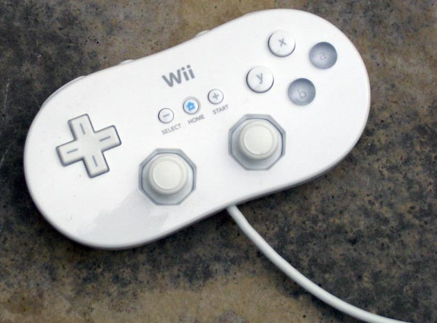 A Classic Nintendo controller for Wii.